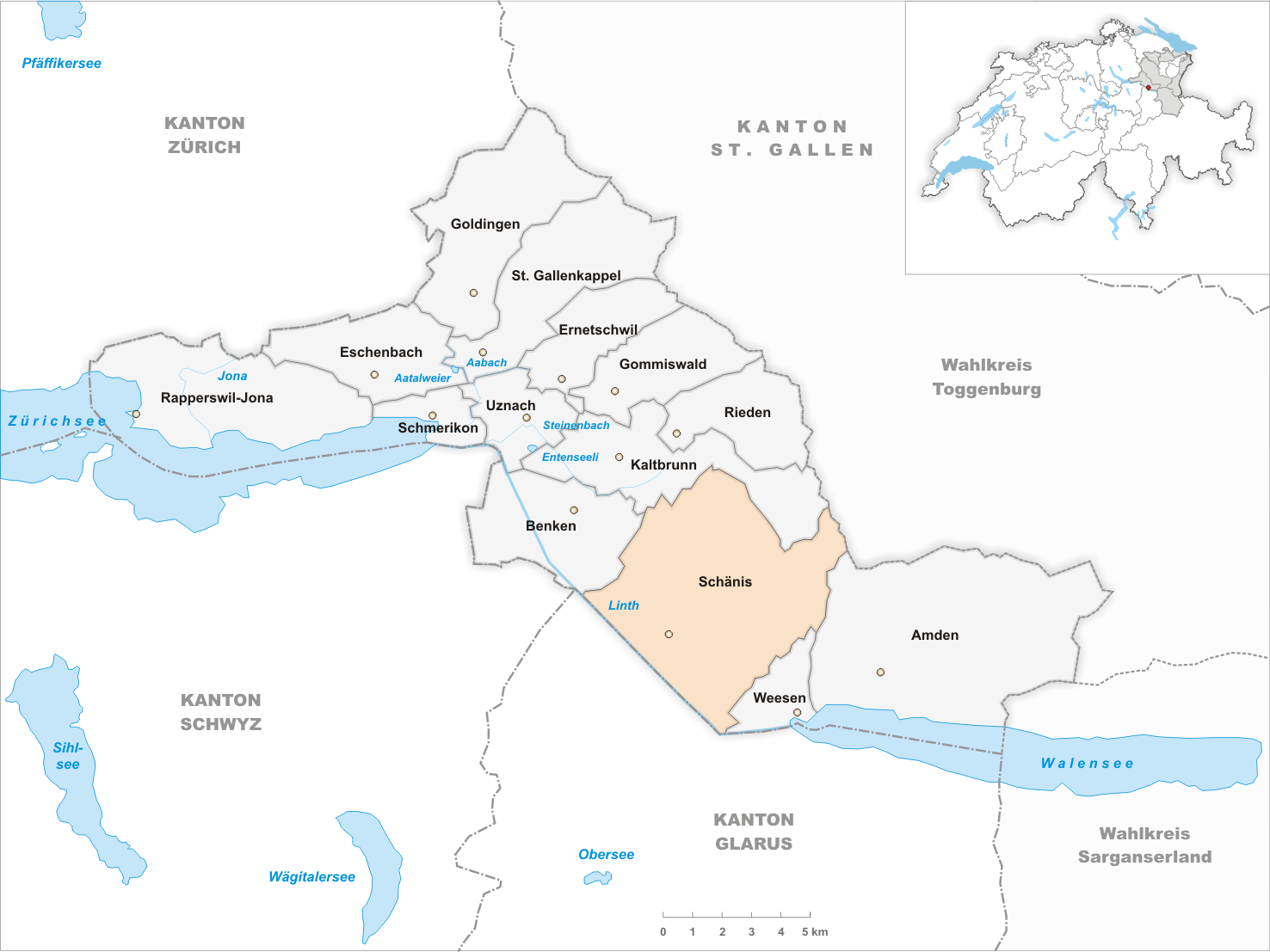 Municipality Schänis